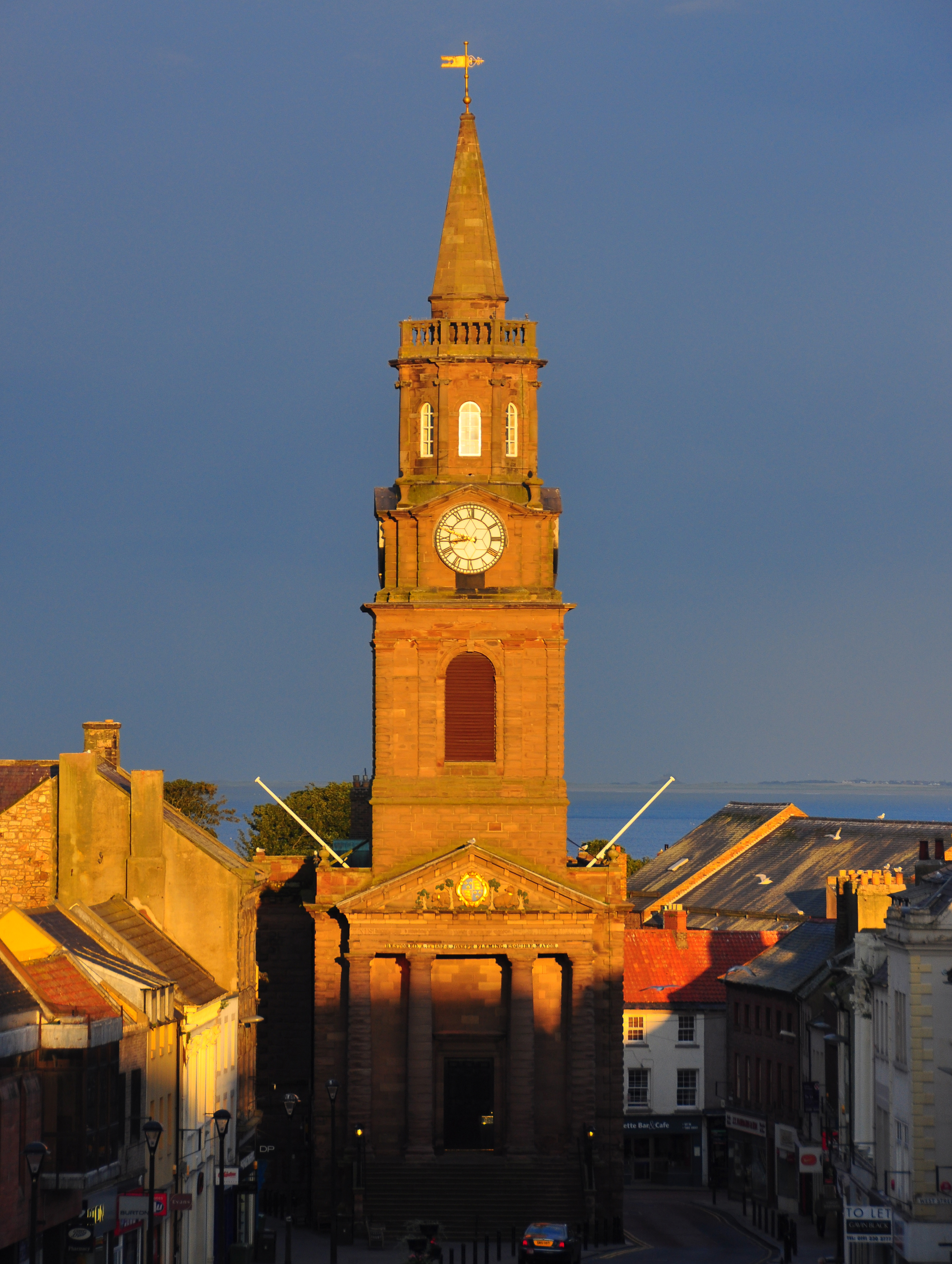 The town hall of Berwick-upon-Tweed, Northumberland. The tower is catching the sunset light, while the building itself is mostly in the shade.